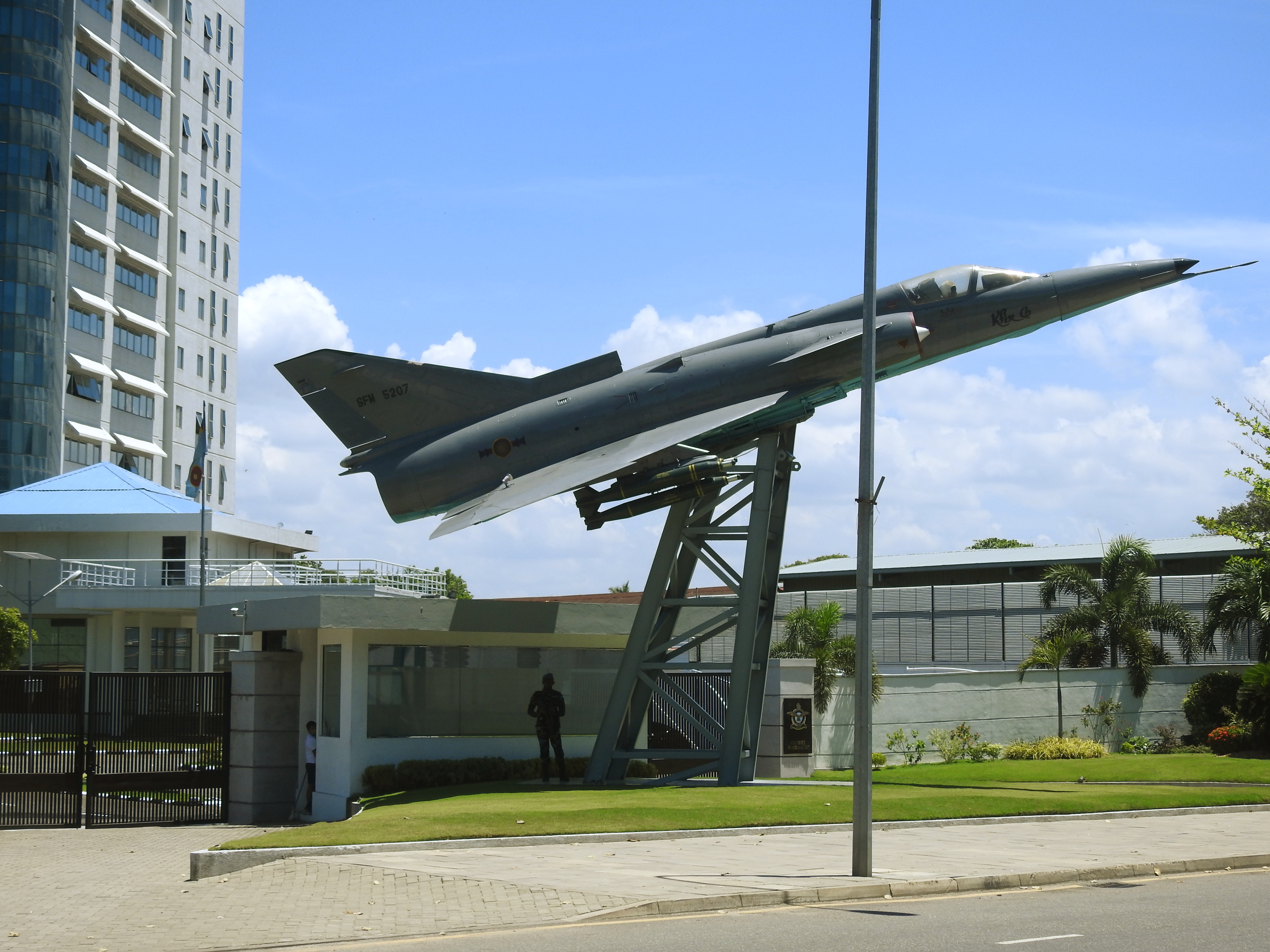 Photos of current/future skyscrapers (and its surroundings) in Colombo, taken by User:Rehman and User:Azeez as part of a photowalk project by Wikimedia Community User Group Sri Lanka. The photowalk covered most of the tallest structures in Colombo that are either completed or under construction. Further information on the subject(s) of the photograph can be found in the category/ies of this file.